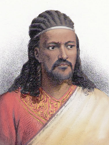 Tewodros II, around 1860